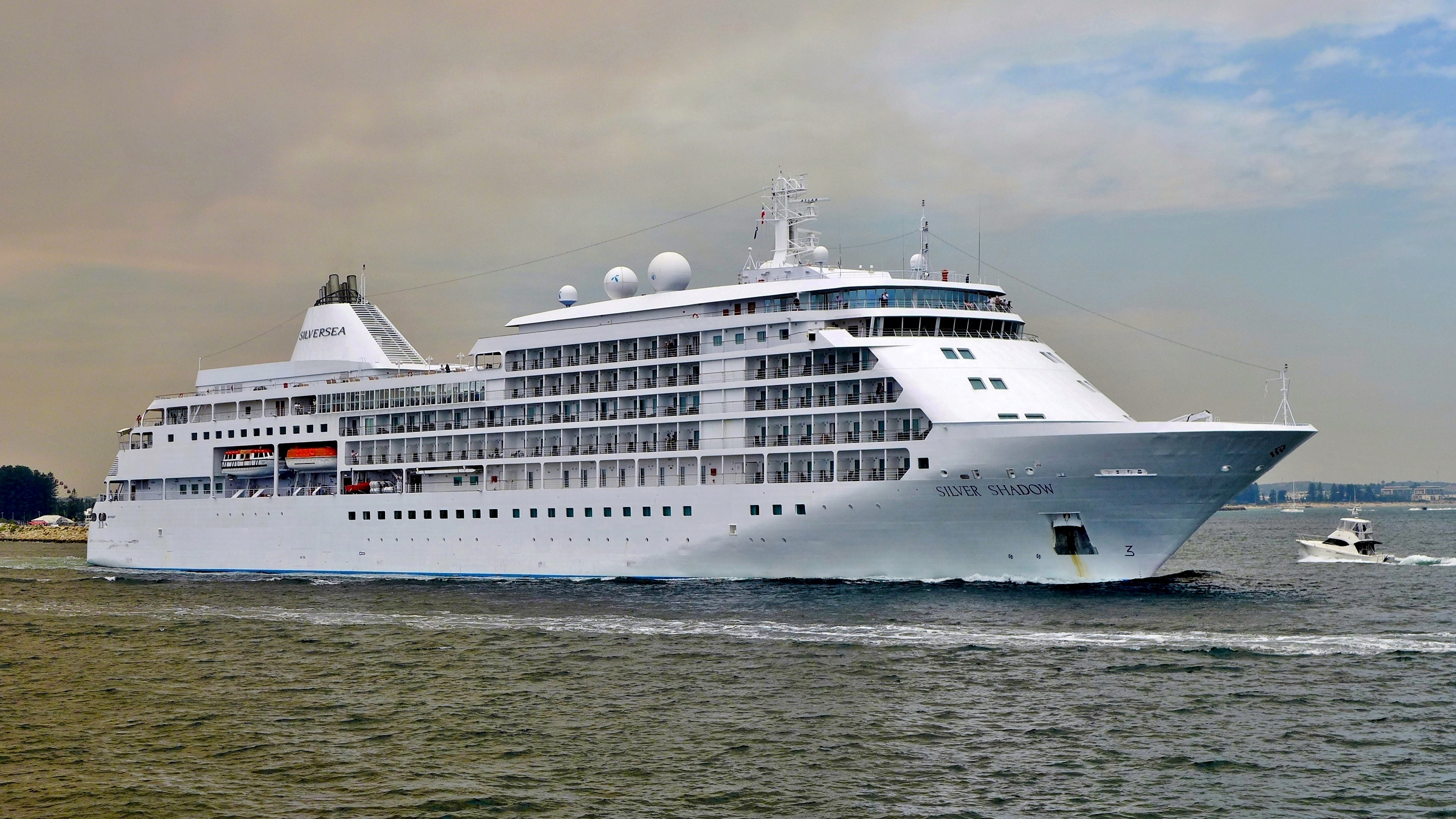 Cruise ship Silver Shadow departing from Fremantle Harbour, Western Australia, on Voyage 3801, an 18-night Sydney to Singapore cruise. The unusual colour of the sky is due to smoke from a bush fire in the Darling Scarp, on the eastern outskirts of Perth.